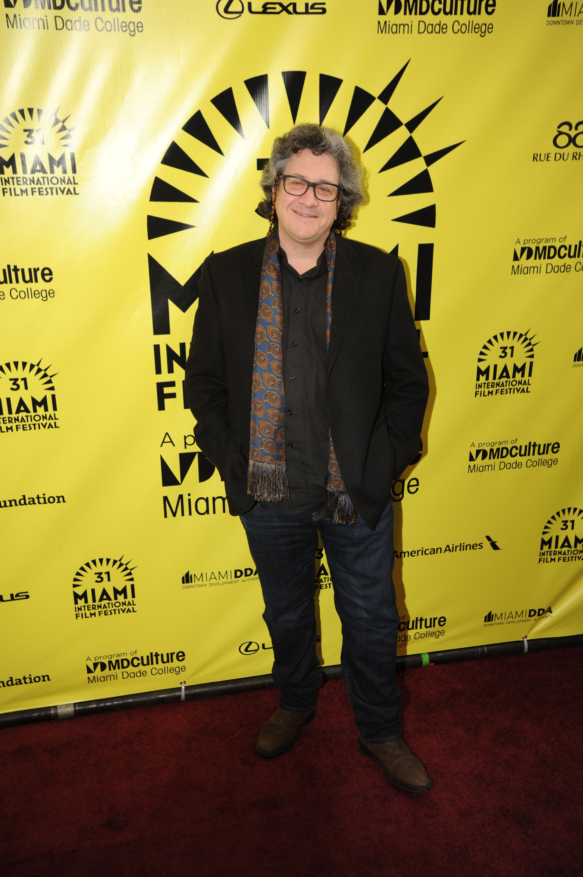 ROB THE MOB director Raymond De Felitta Photo by: World Red Eye